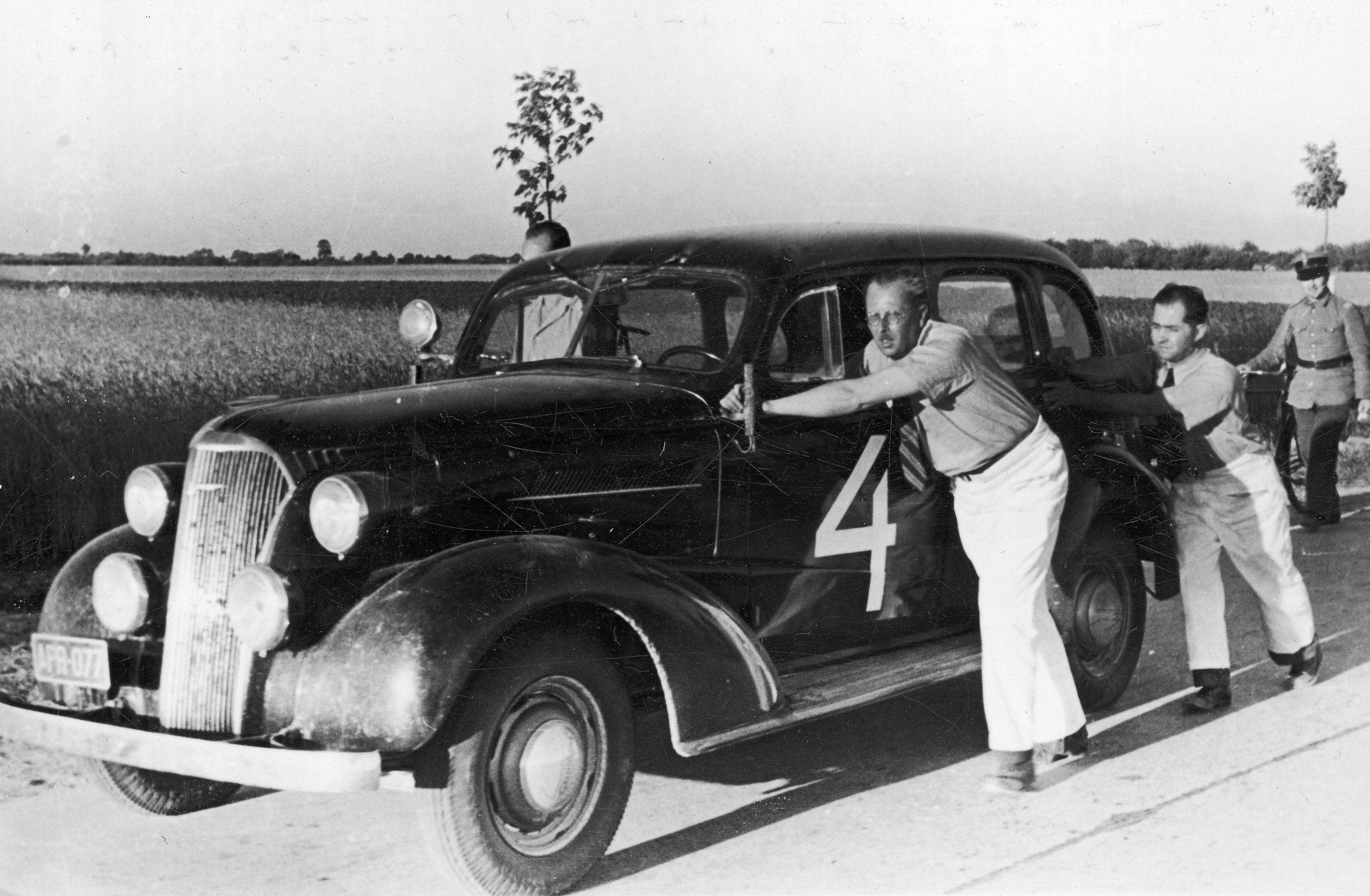 International Rally Automobile Club Poland, Grand Prix Poland 1937, new Chevrolet Master Sedan (Polish assembled) with his driver Witold Rychter and pilot Jerzy Wędrychowski. Car is not damaged. They are pushing their car to the place of start in Łomianki to avoid overheating. Concrete road.